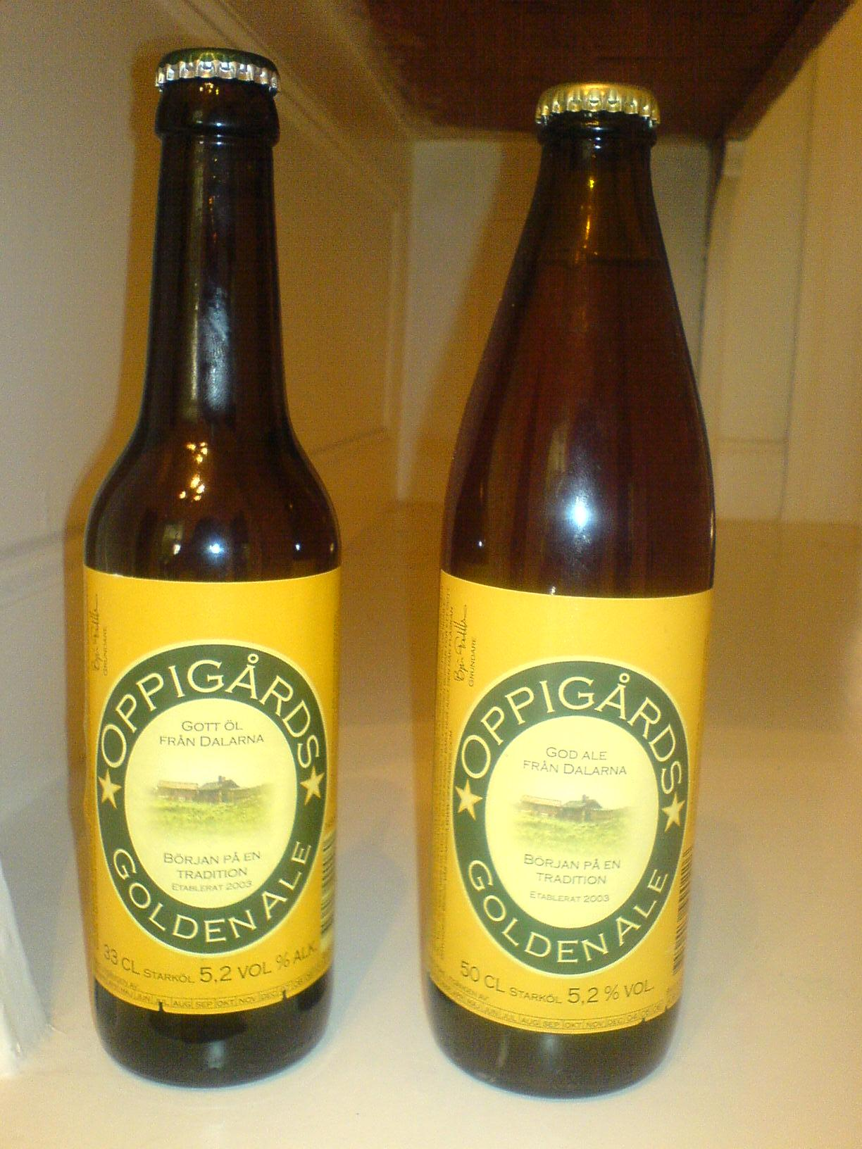 Oppigårds golden ale. Left: new look (33cl). Right: old look (50cl).